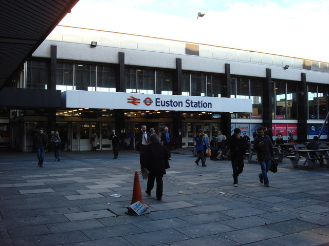 Main Entrance, Euston station